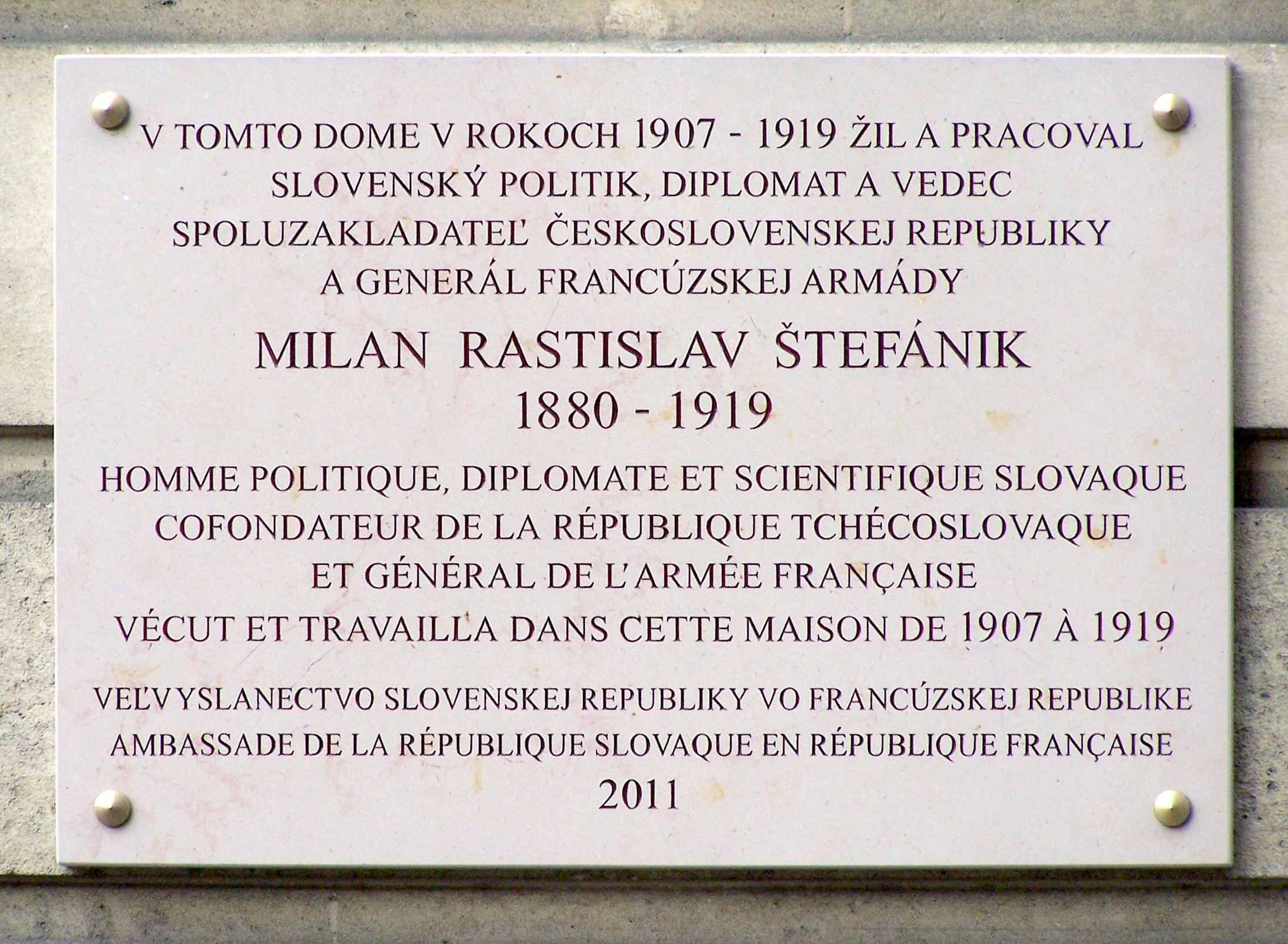 Plaque commémorative du 6, rue Leclerc à Paris où vécut Milan Rastislav Štefánik de 1907 à 1919